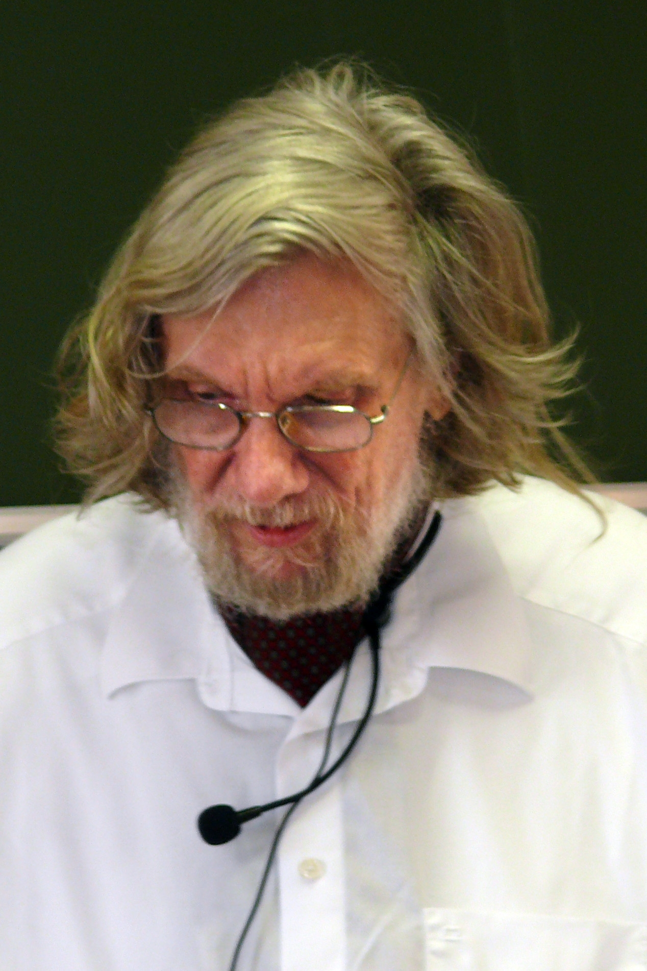 Prof Ronald Jensen, Będlewo, Poland; July 2007